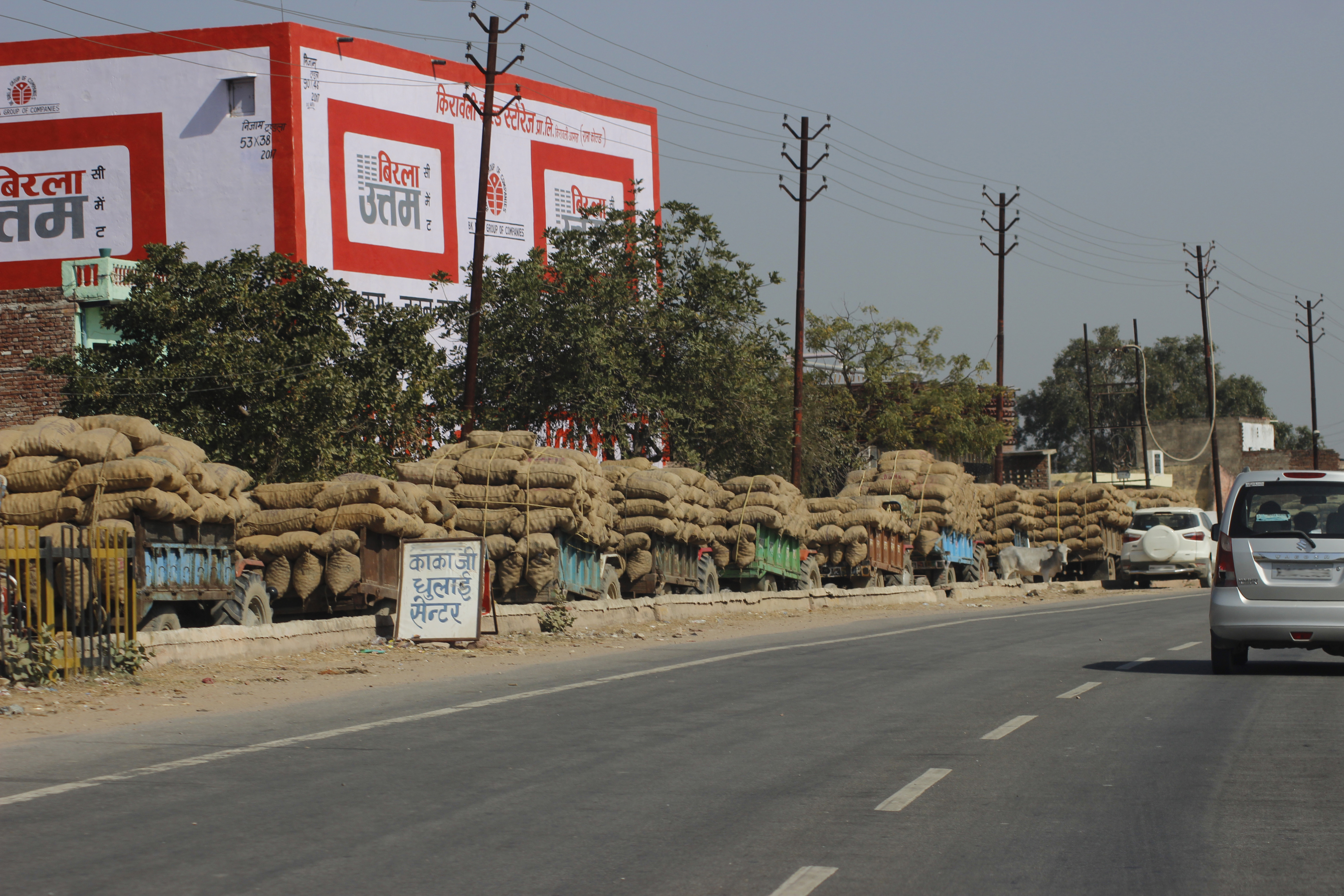 Potato transportation to cold storage in India